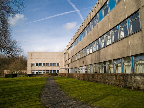 Campus Jette building, Erasmushogeschool Brussel